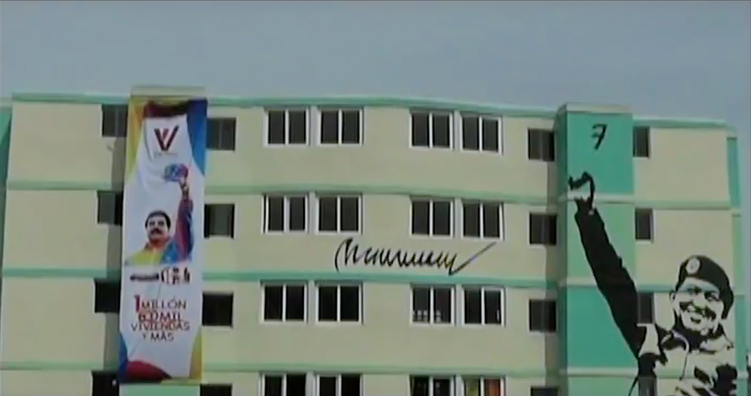 Recently finished public housing in Venezuela featuring images of Hugo Chávez, Nicolás Maduro and a painted signature of President Maduro.